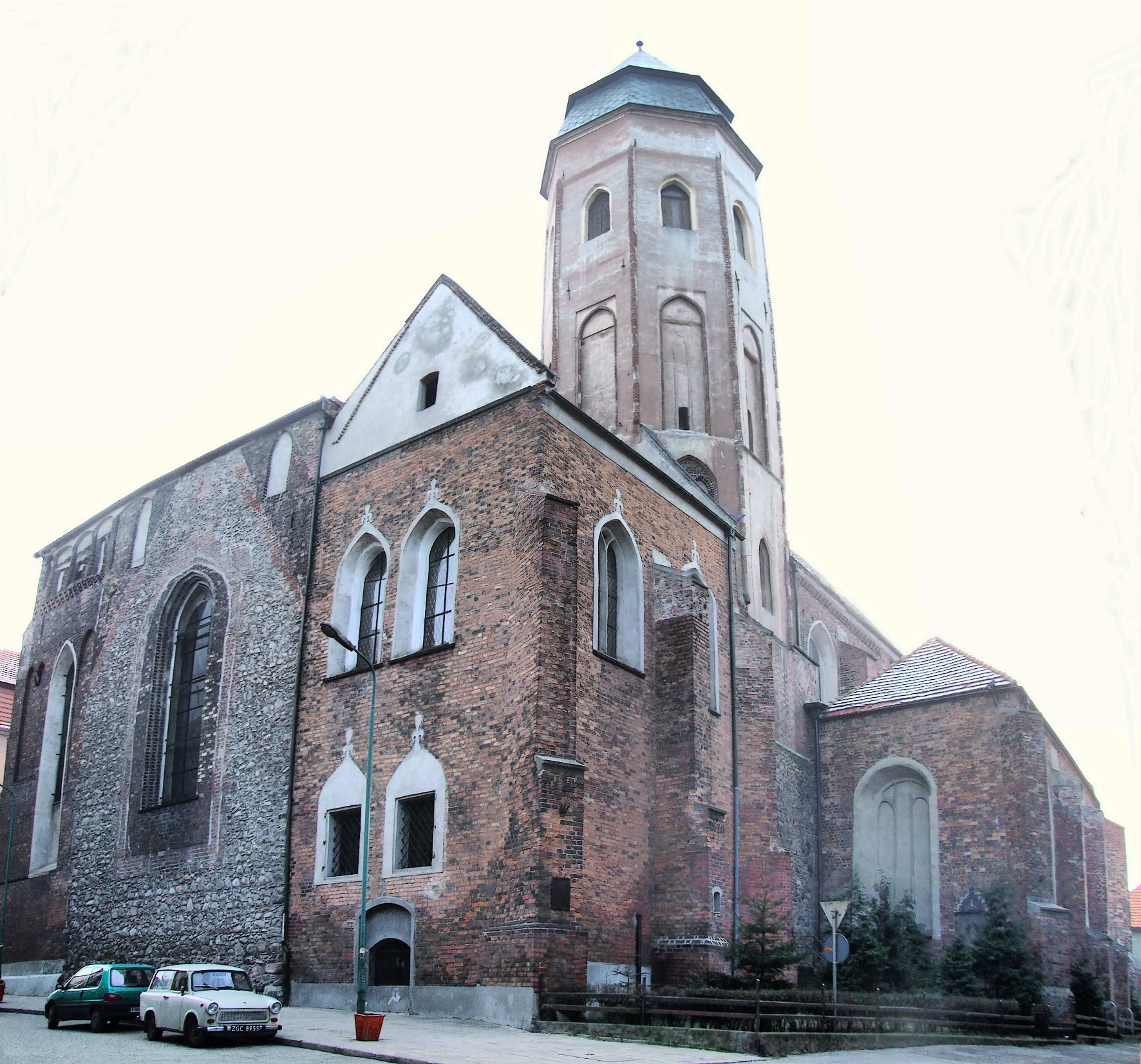 Kożuchów, the parish church